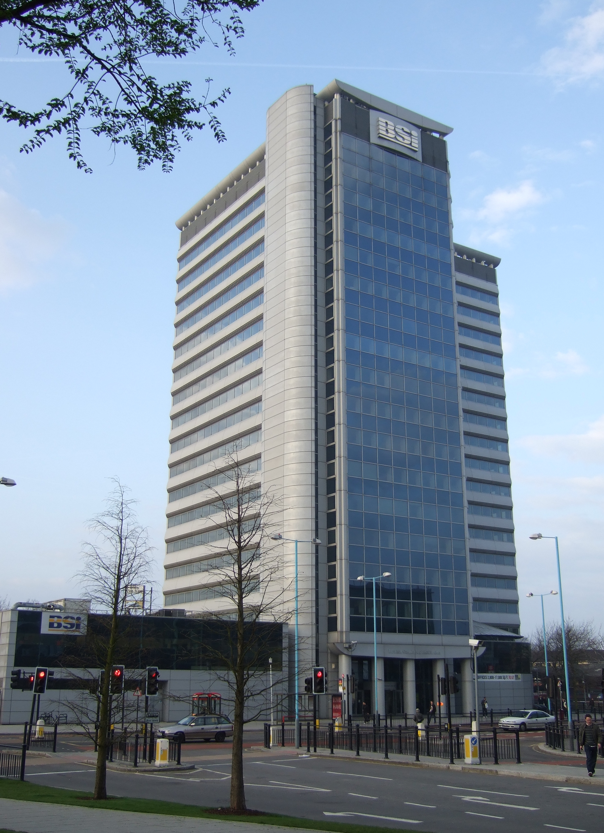 BSI (British Standard Institut headquaters in London (389 Chiswick High Road).